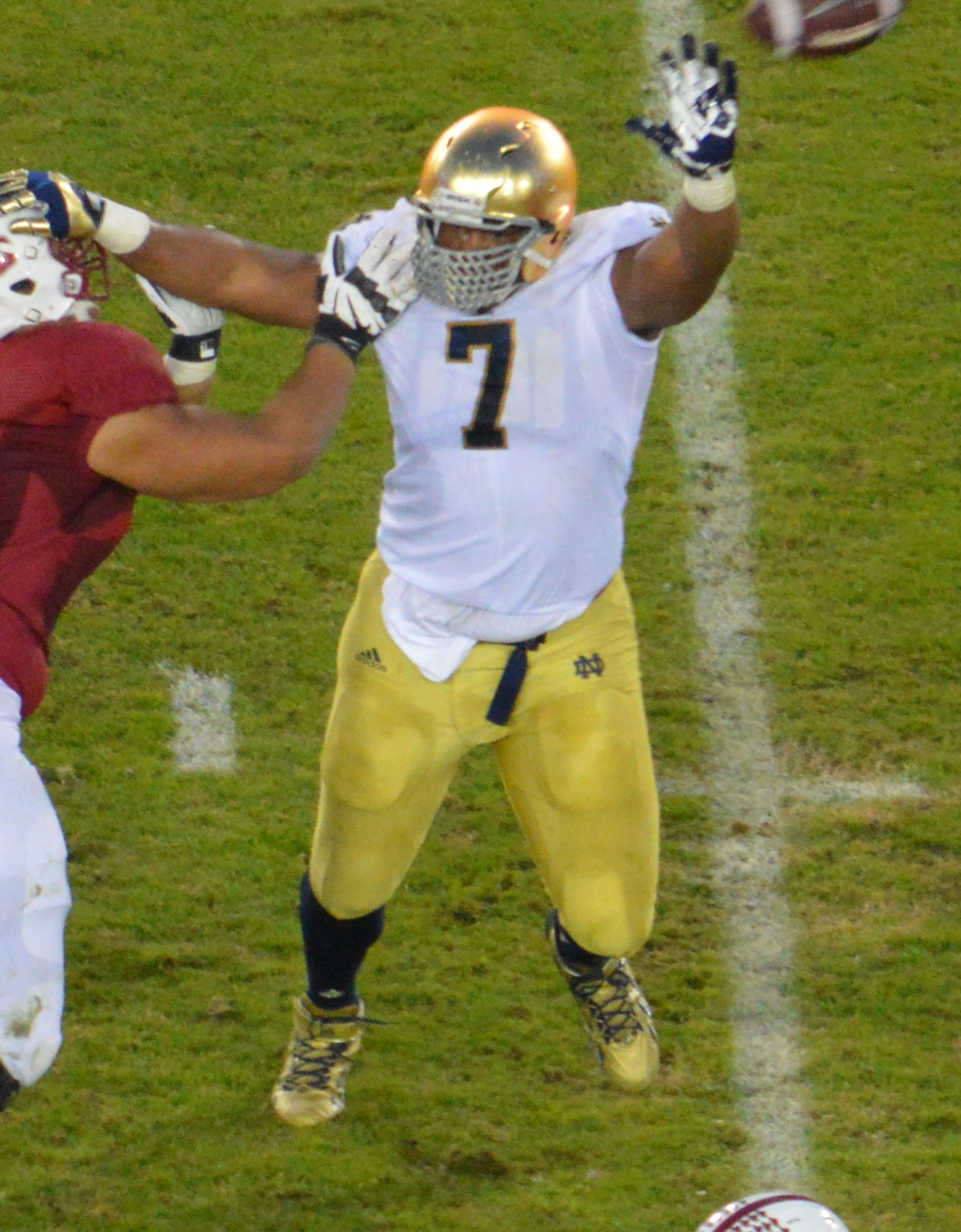 Stanford vs. Notre Dame football game, 2013